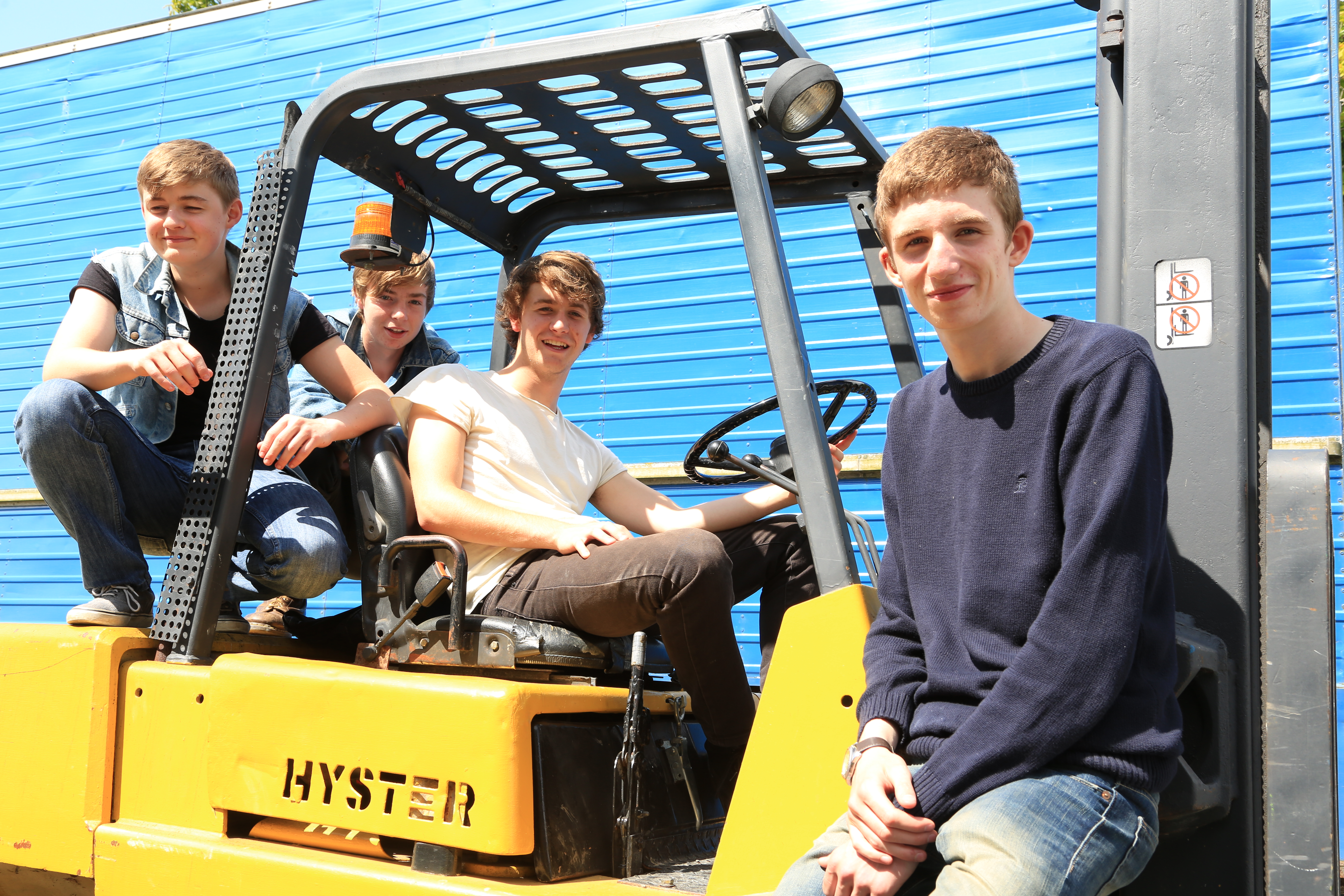 Mellt. A Welsh band.